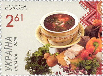 Ingredients for Ukrainian borscht